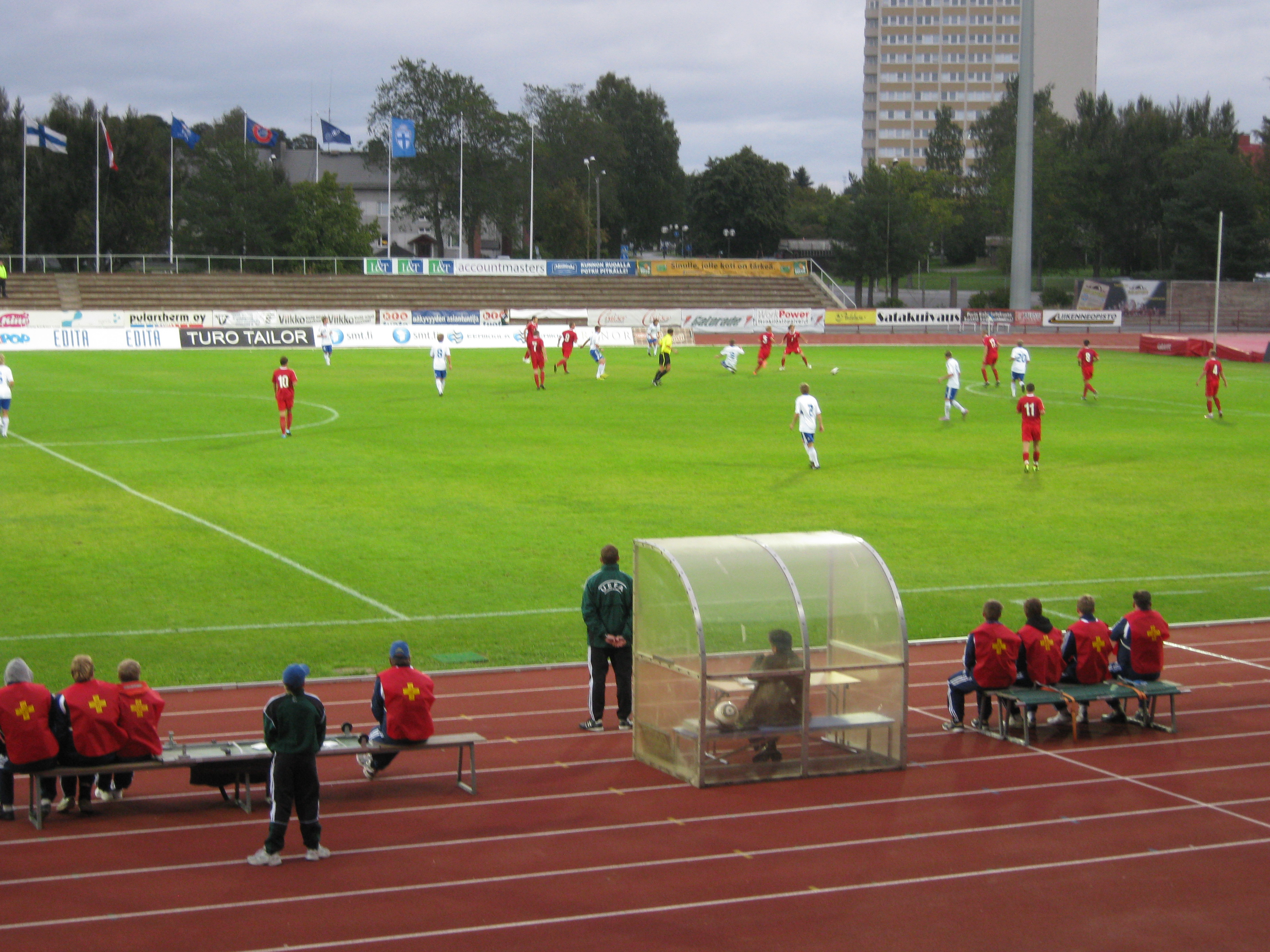 U21 football international Finland vs Poland at Pori, Finland.